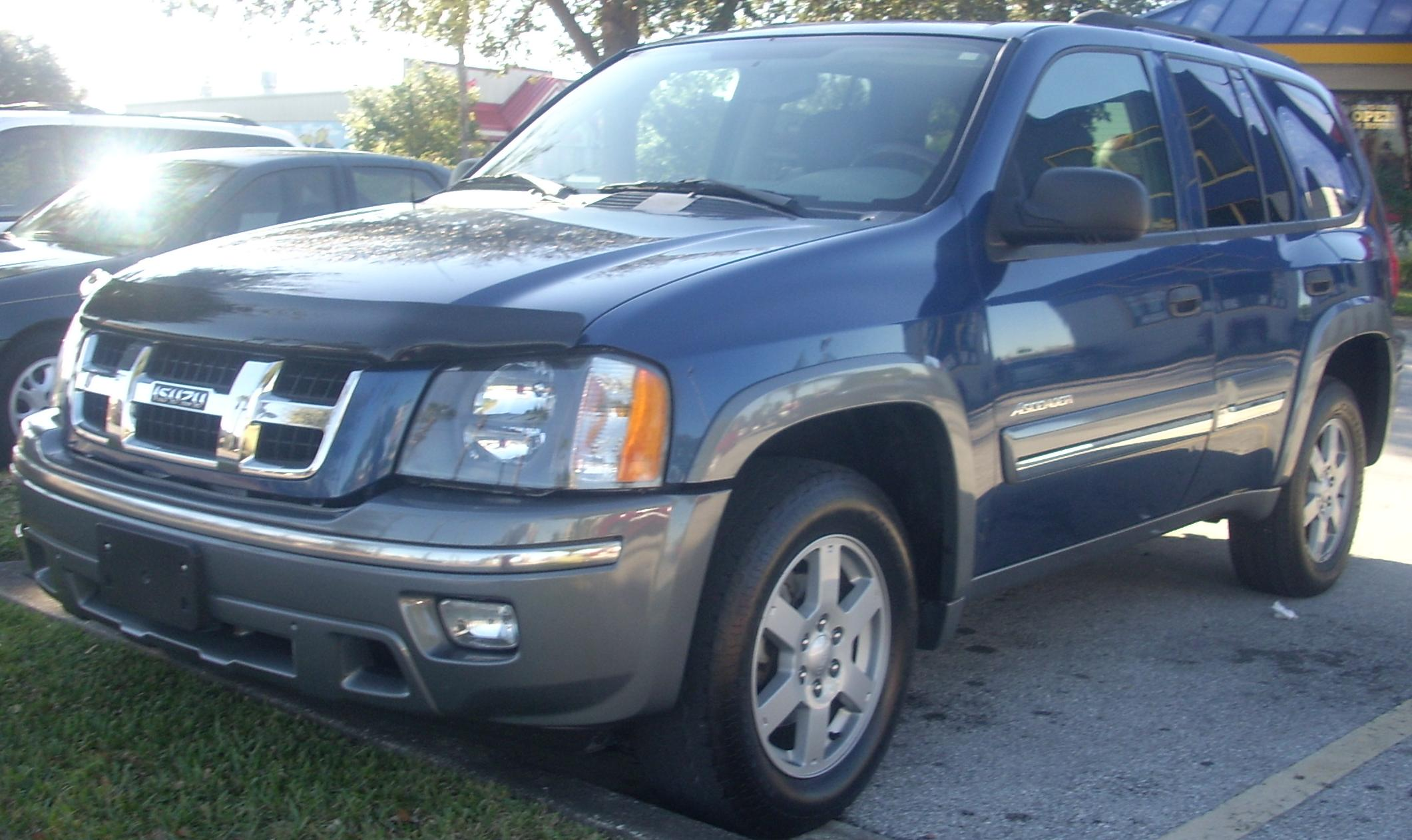 2005 Isuzu Ascender photographed in Orlando, Florida, USA.